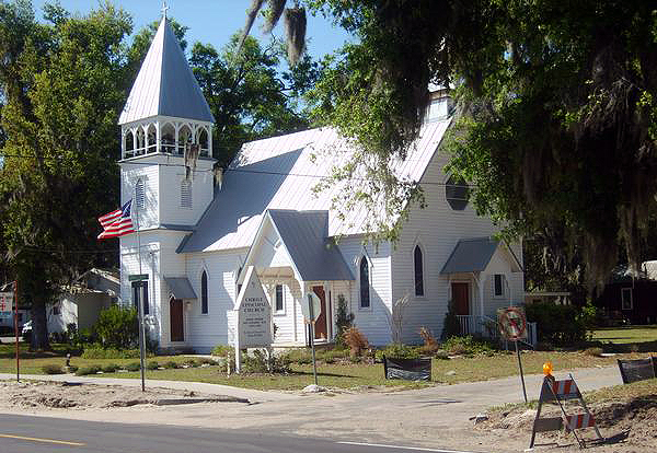 The Historic Christ Church circa 1889, taken by myself.